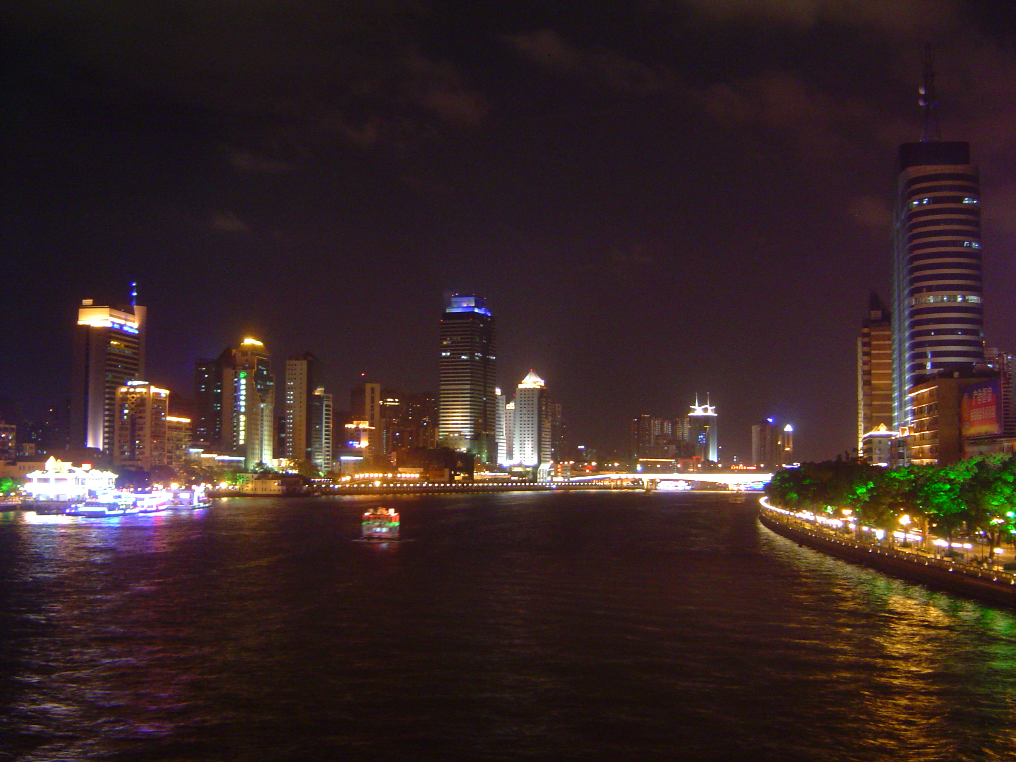 Pearl River in Guangzhou